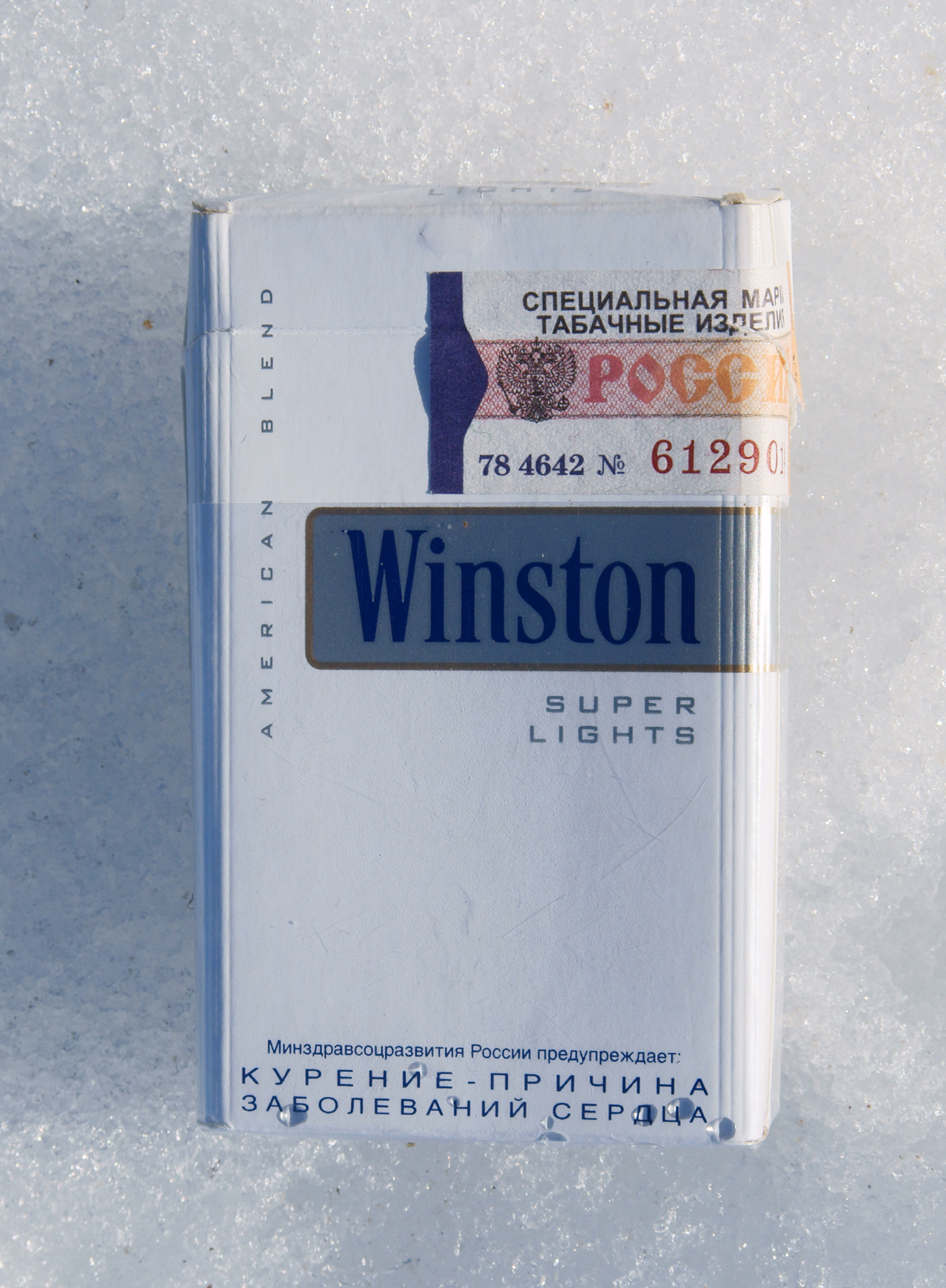 Empty Winston Super Lights -cigarette pack.